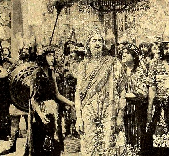 Still from the American film Intolerance (1916) with Constance Talmadge and Alfred Paget, on page 31 of the August 1919 Film Fun.